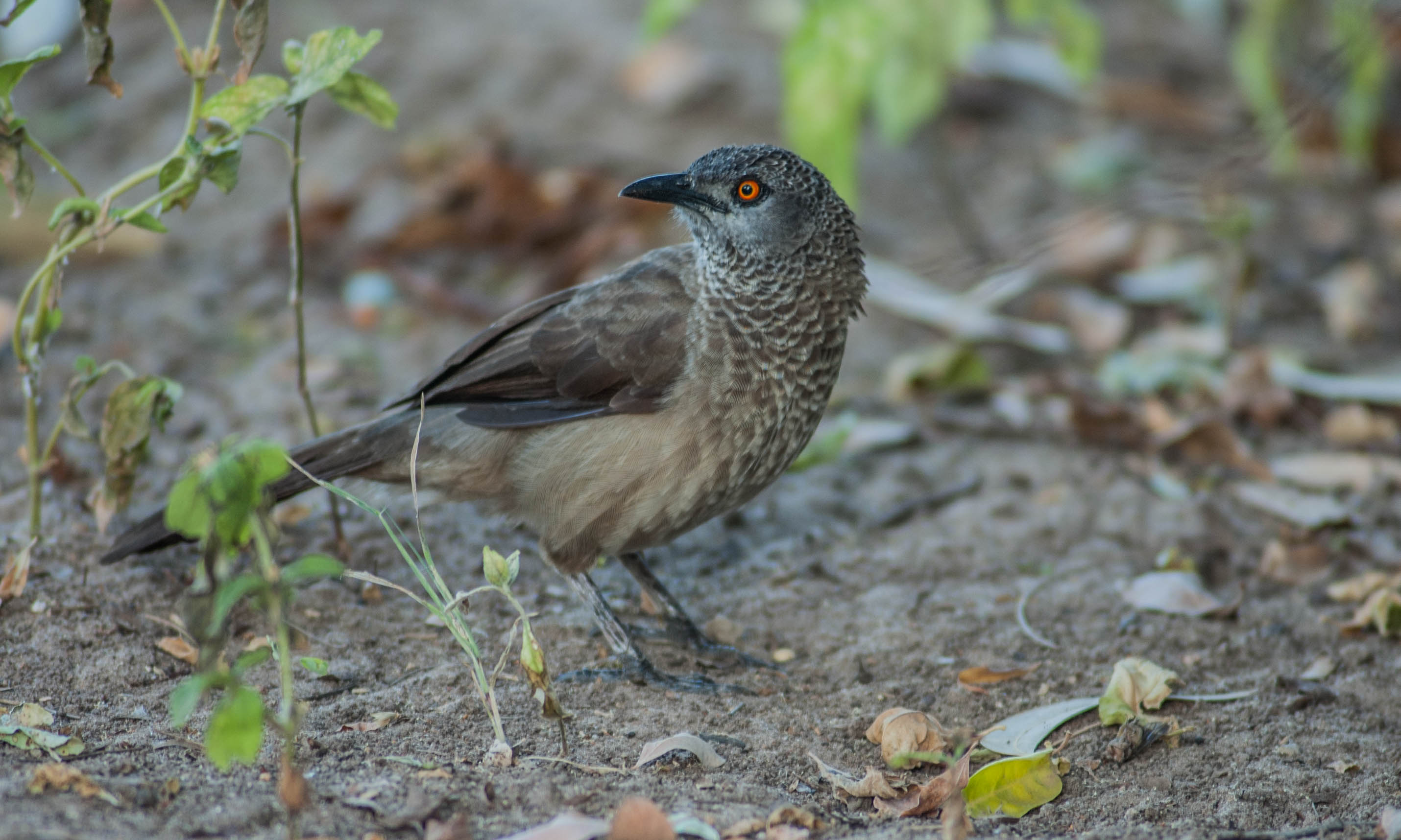 Brown Babbler ...Gambia